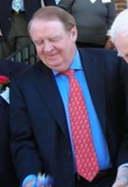 Senate President and Former New Jersey Governor Richard "Dick" Codey, in 2007